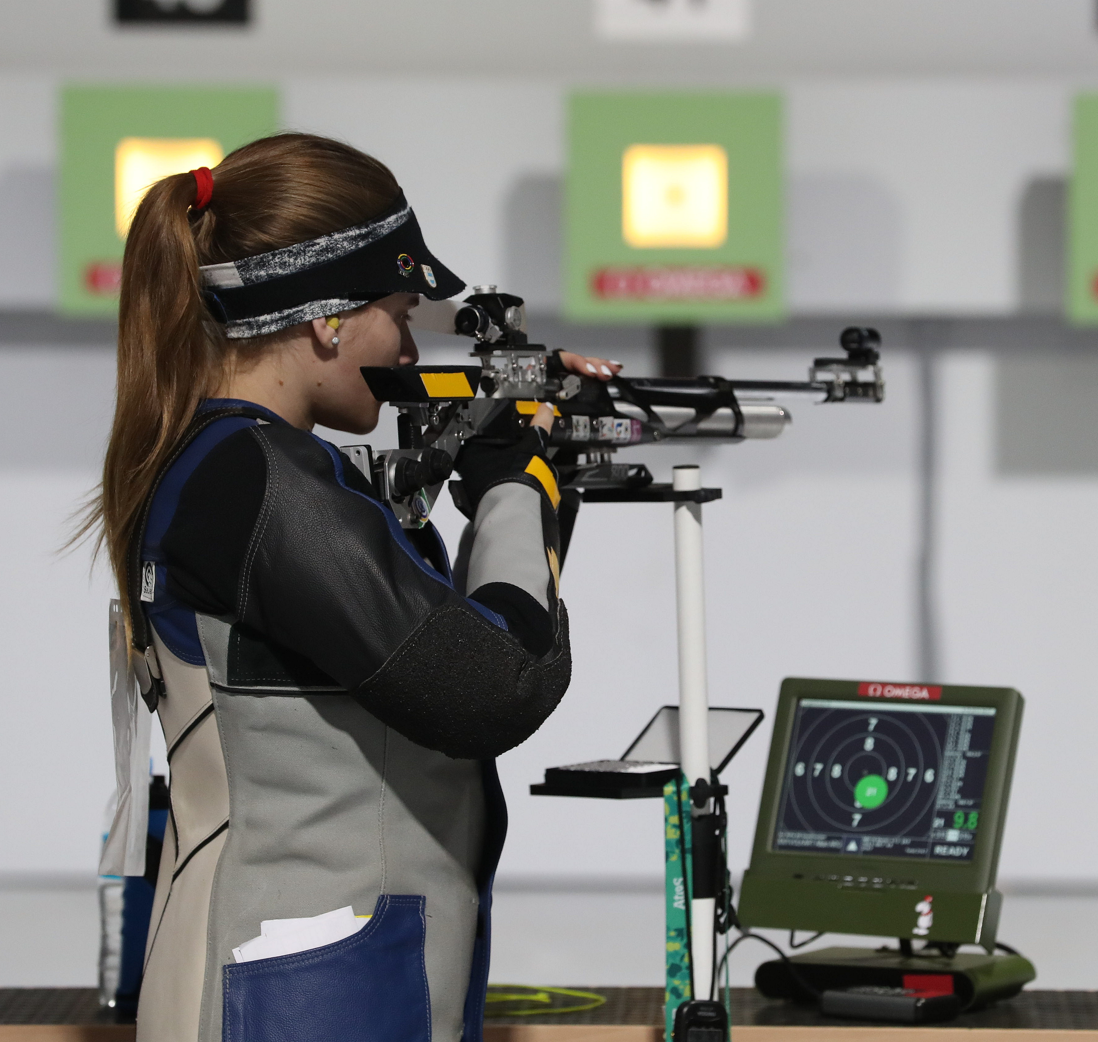 Shooting at the 2018 Summer Youth Olympics in Buenos Aires on 7 October 2018. Girls' 10 metre air rifle.